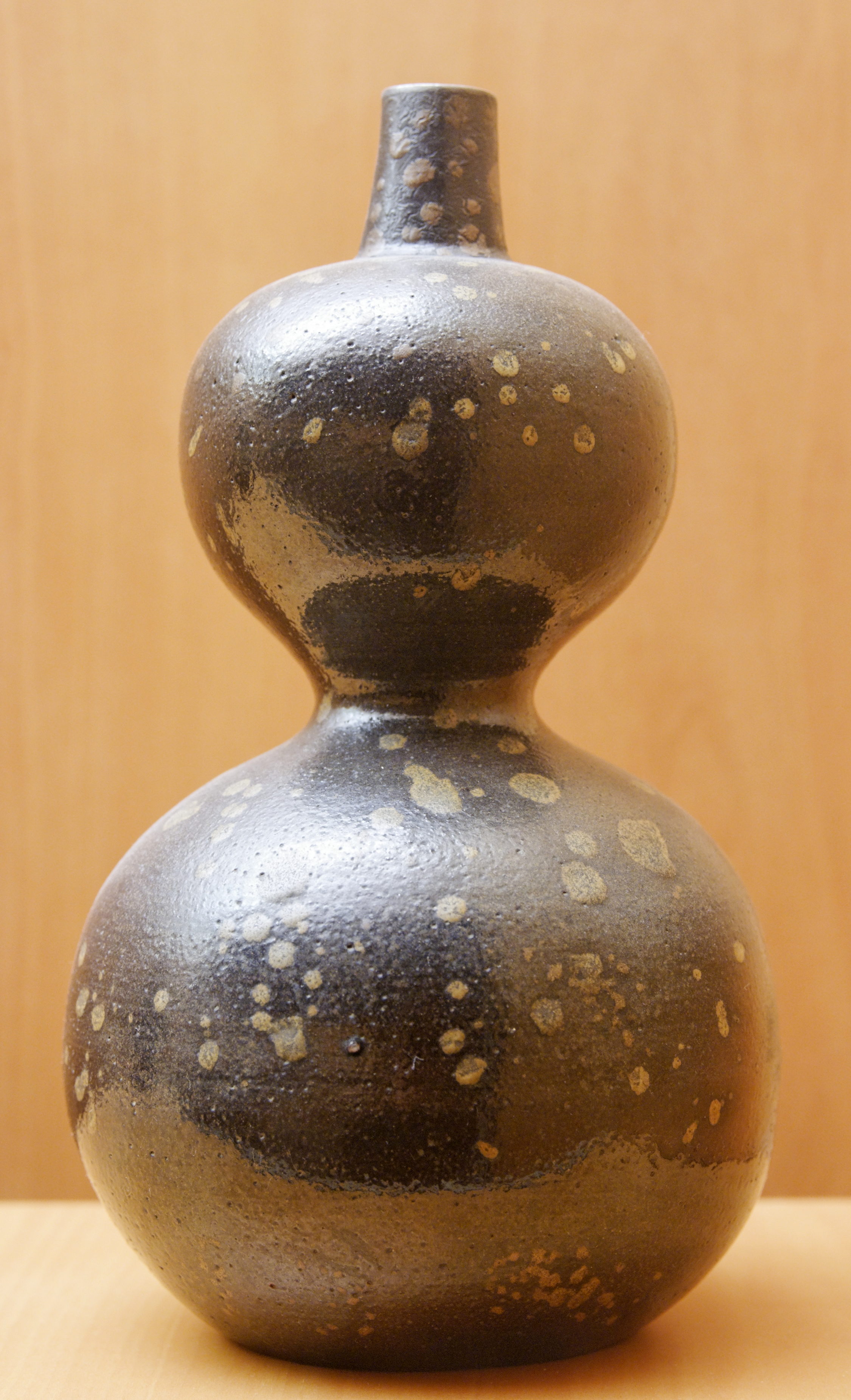 Sake bottle, perhaps from Bizen. Stoneware, Japan, 17th–18th centuries.